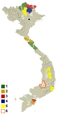 Map of Vietnam showing IFAD programme locations.